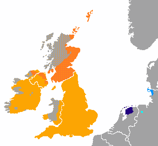 Present-day distribution of the Anglo-Frisian languages in Europe: Anglic English Scots Frisian West Frisian North Frisian Saterland Frisian Dots indicate areas where multilingualism is common.